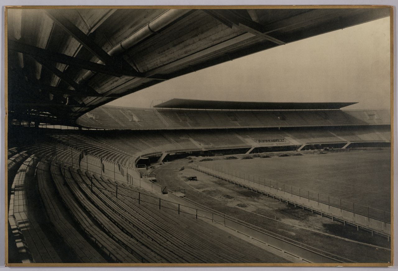 Stadion Feyenoord, Rotterdam, 1934-1936. Architecten: J.A. Brinkman en L.C. van de Vlugt. Fotograaf: onbekend. Collectie NAi / TENT_n175 URL van deze afbeelding: Meer foto's uit deze collectie kunt u bekijken in de Collectiedatabase van het NAi. Niet van alle gebouwen en interieurs zijn alle gegevens bekend. Heeft u meer informatie of weet u het adres van een gebouw? Laat dan een reactie achter (als u ingelogd bent bij Flickr) of stuur een mailtje naar: Al deze foto's zijn gemaakt in de eerste helft van de twintigste eeuw. Wij zijn benieuwd hoe deze gebouwen er vandaag de dag uitzien. Heeft u recente foto's van deze gebouwen of locaties, voeg ze dan toe als commentaar. U kunt een eigen Flickr-foto toevoegen door de URL ervan tussen vierkante haken in het commentaarveld te plakken. Als uw foto's een Creative Commons licentie hebben, nemen we ze bovendien graag op in de NAi Collectiedatabase. Feyenoord Stadium, Rotterdam, 1934-1936. Architects: J.A. Brinkman and L.C. van der Vlugt. Photographer: unknown. NAI Collection / TENT_n175 Persistent URL: For more photographs from this collection, please visit the NAI Collection Database You can help us gain more knowledge on the content of our collection by adding a comment with information. If you do not wish to log in, you can write an e-mail to: All these pictures are taken in the first half of the twentieth century. We are curious to learn how these buildings look like today. If you have recently taken photographs of these buildings or locations, please add them to your comment. If you'd like to include a Flickr photo, simply copy and paste its URL between square brackets in the commentary-field. Photos with a Creative Commons licence may be used to illustrate the NAi Collection Database.